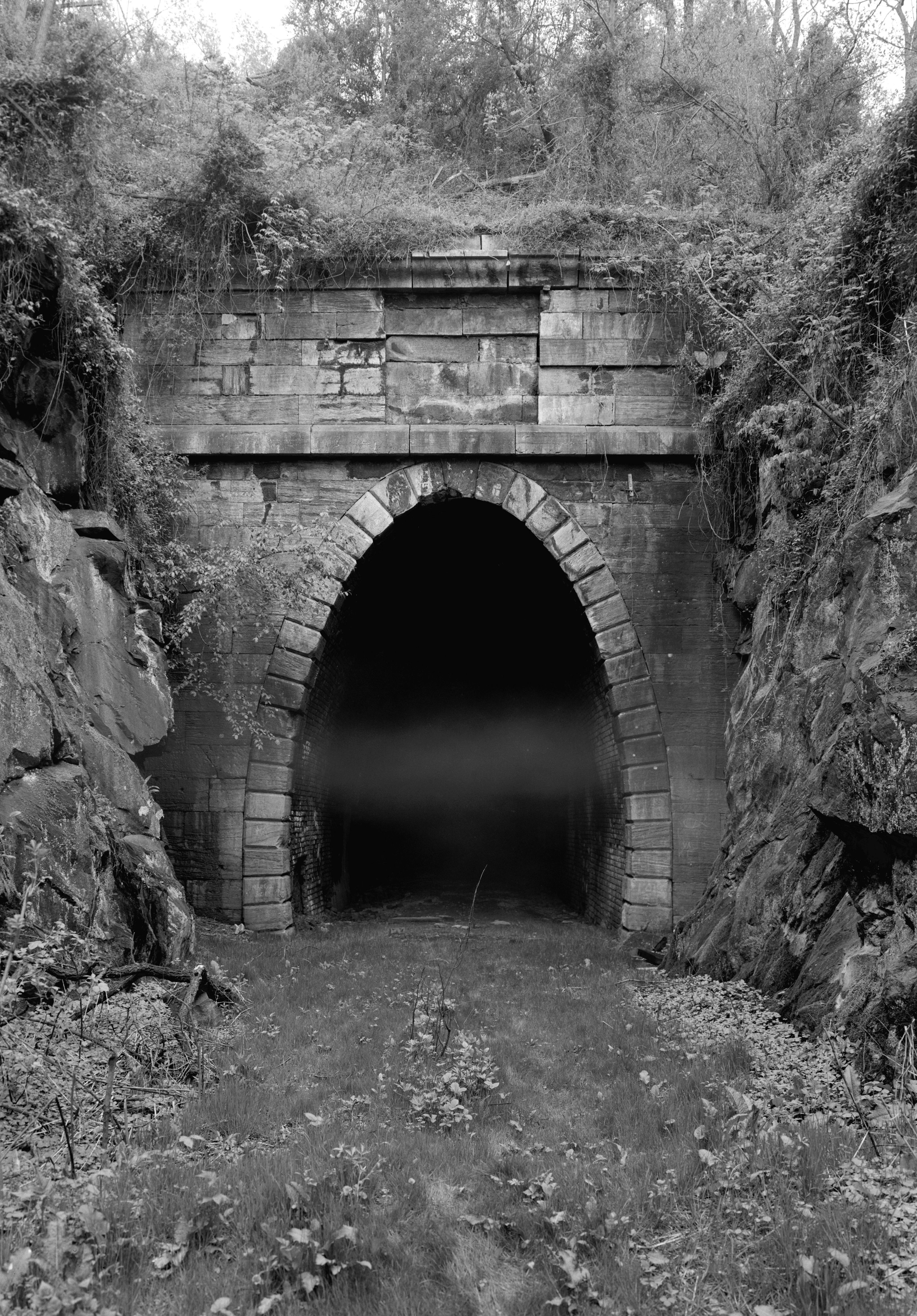 View of portal of Blue Ridge Tunnel (Crozet Tunnel), of the Blue Ridge Railroad. Located near U.S. Route 250 at Rockfish Gap, Afton vicinity, Nelson County, VA. Built 1850-1858. Photo retouched to remove black border.